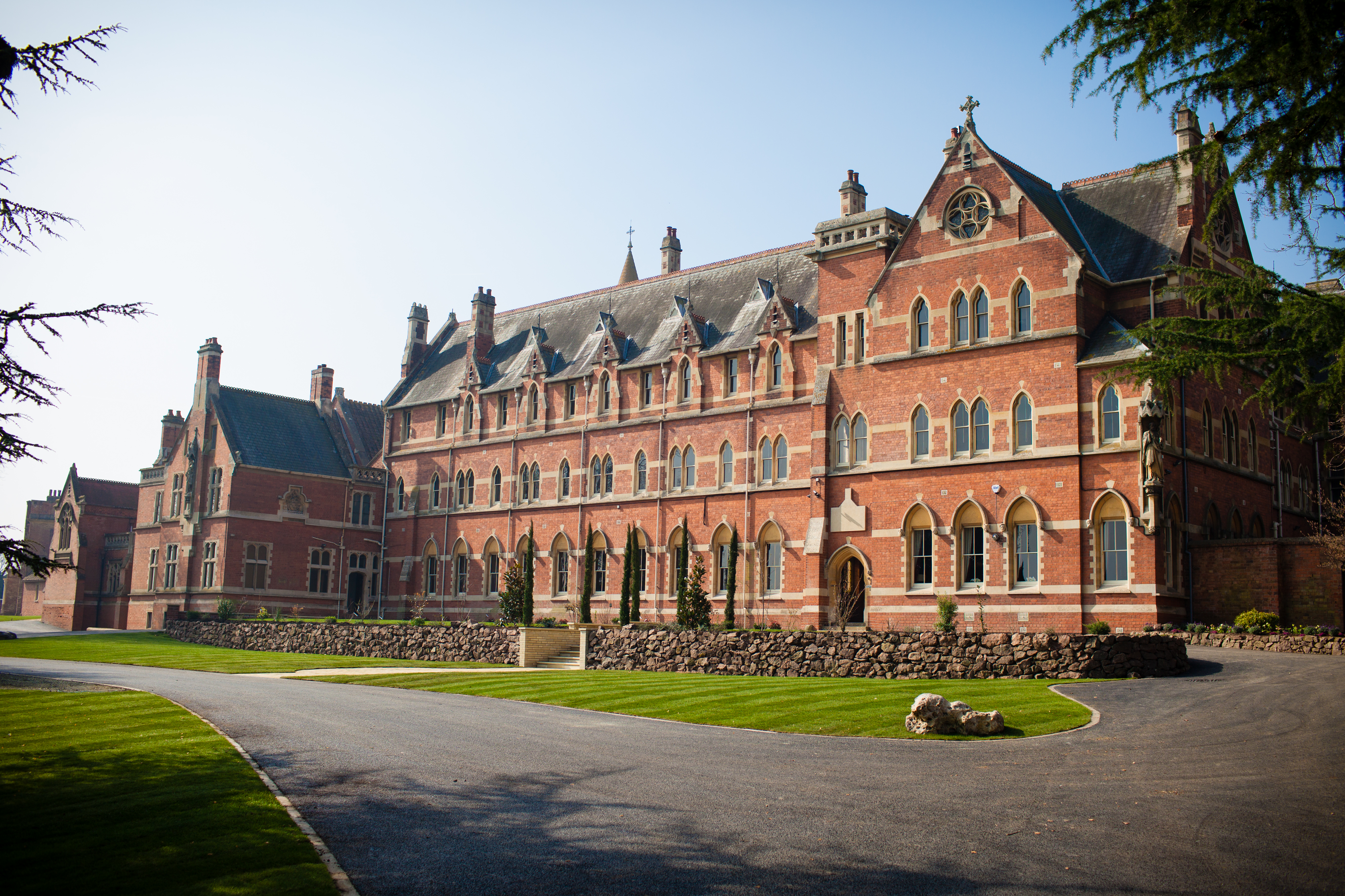 Stanbrook Abbey Exterior